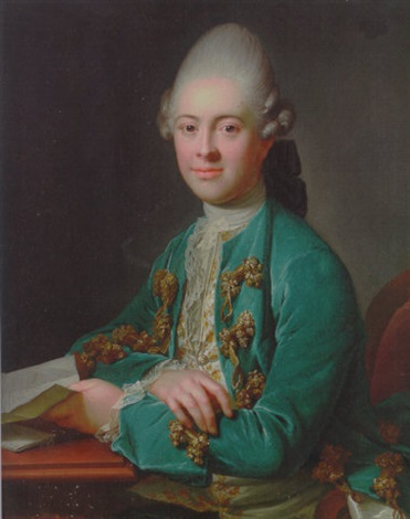 Portræt af Michael Herman baron Lovenskiold , 1772